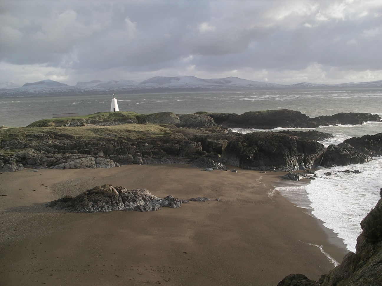 Ynys Llanddwyn old light house with Snowdonia behind